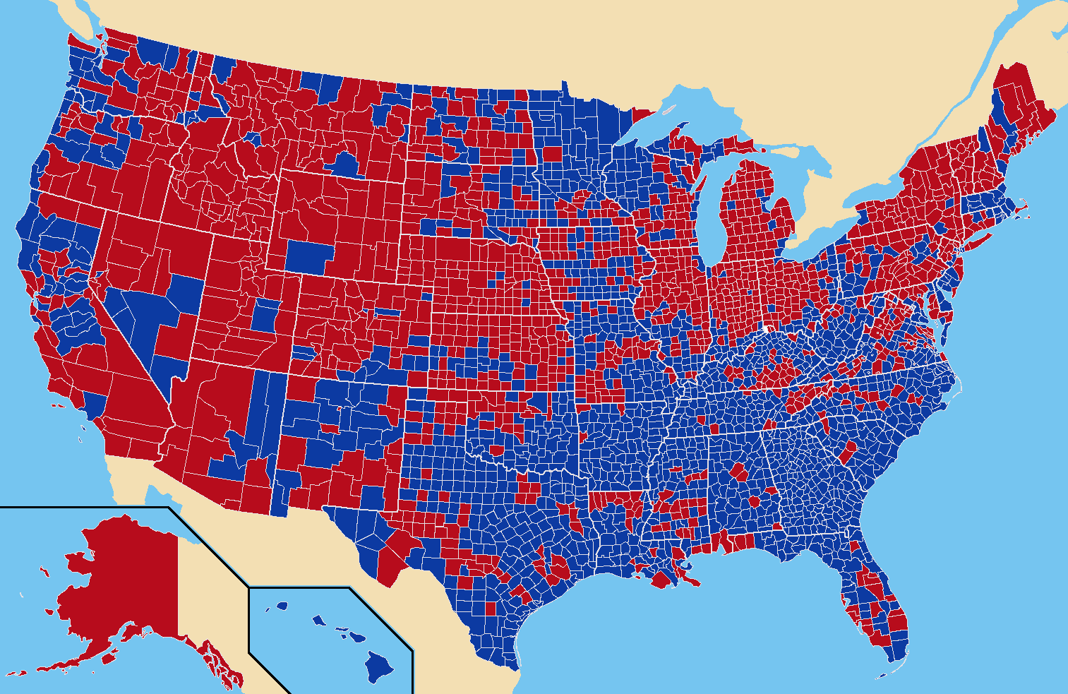 A map of the counties won by each candidate in the United States presidential election.